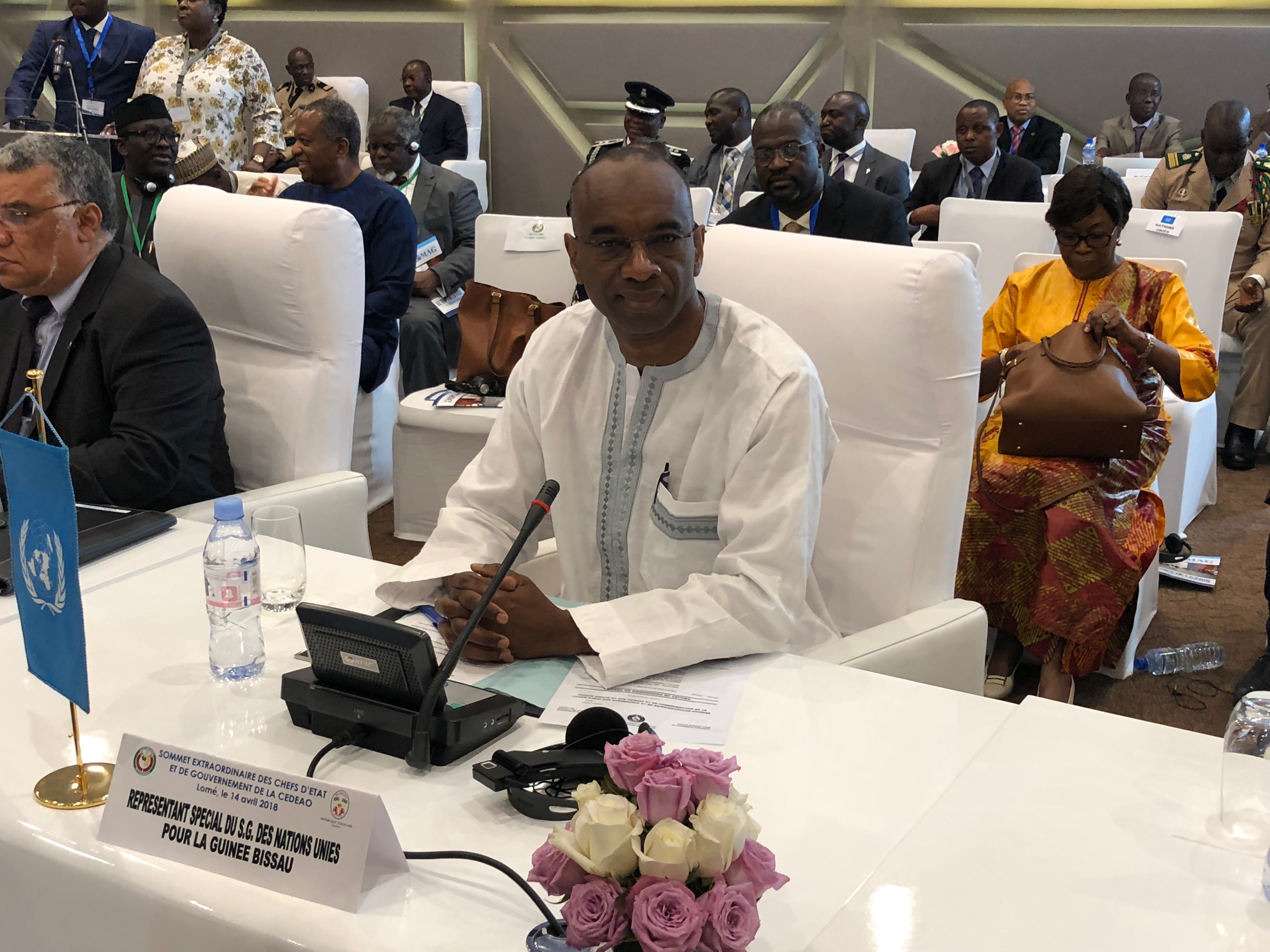 Toure at an ECOWAS Extraordinary Summit on Guinea-Bissau in Lome, Togo, in April 2018